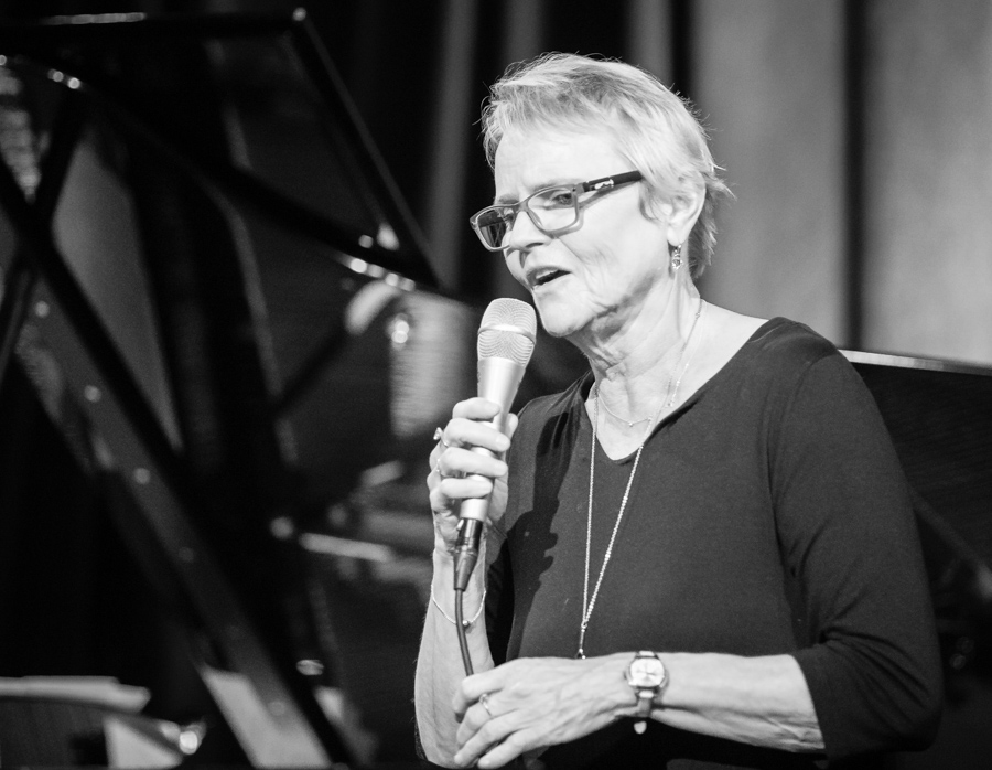 Elin Rosseland at Victoria Teater. The concert took place on 13. September 2019 in Oslo. Lineup:Elin Rosseland (vocal)Helge Lien (grand piano)Johannes Eick (double bass)Knut Aalefjær (drums and percussion)